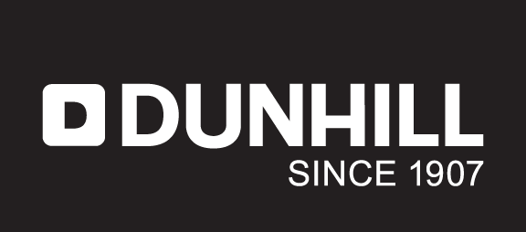 Logo of the Dunhill brand of British American Tobacco.